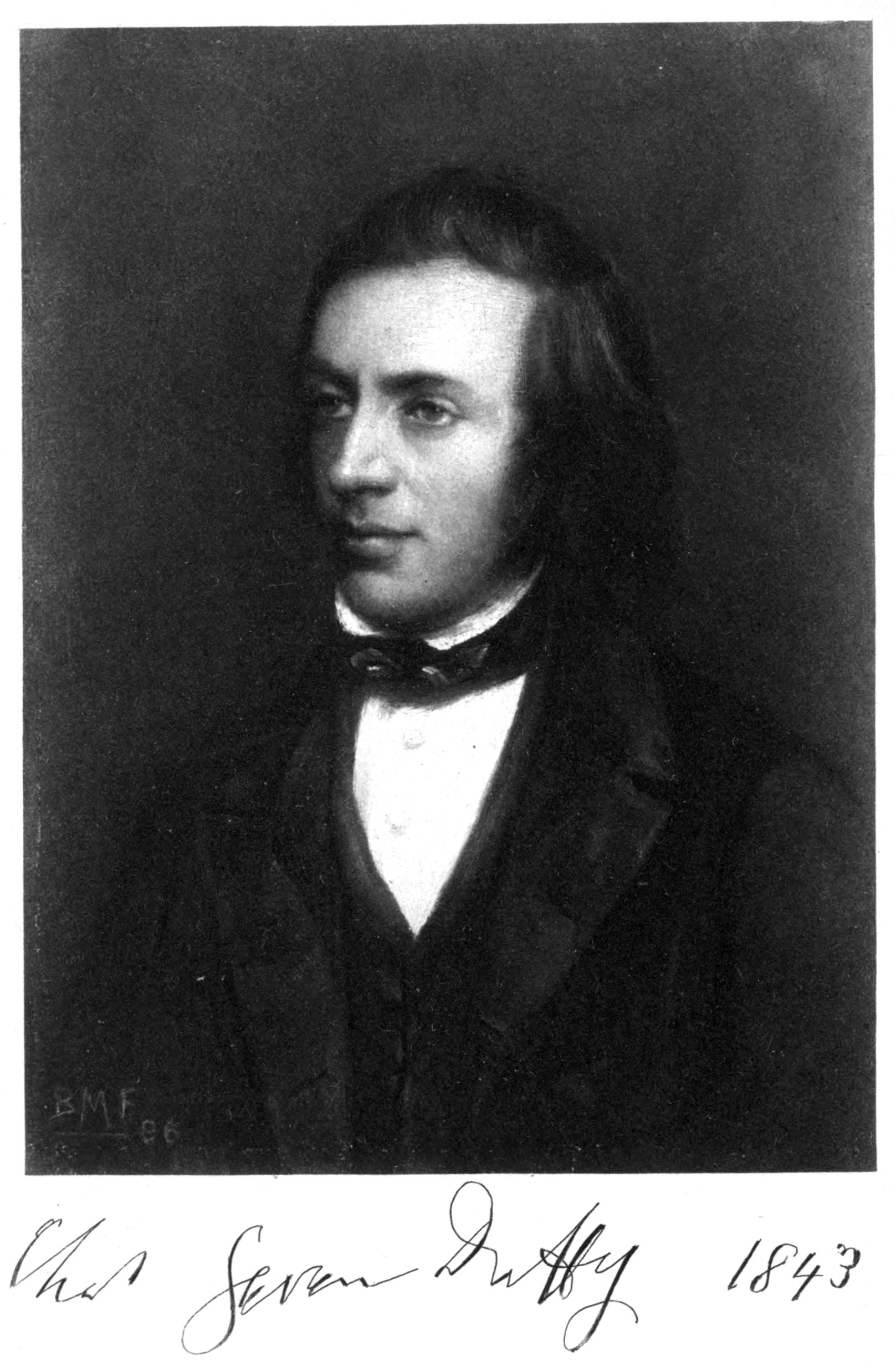 Image of Charles Gavan Duffy, 1843, taken from his autobiography